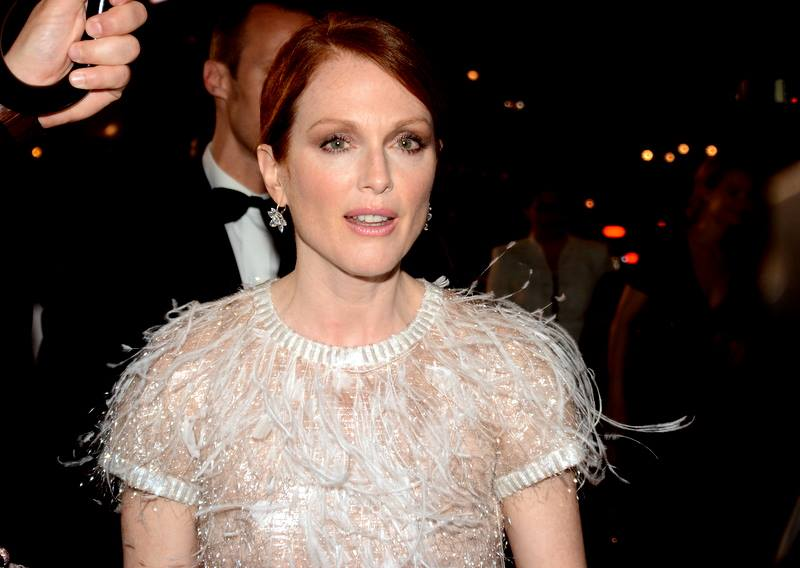 Julianne Moore at the Cannes Film festival